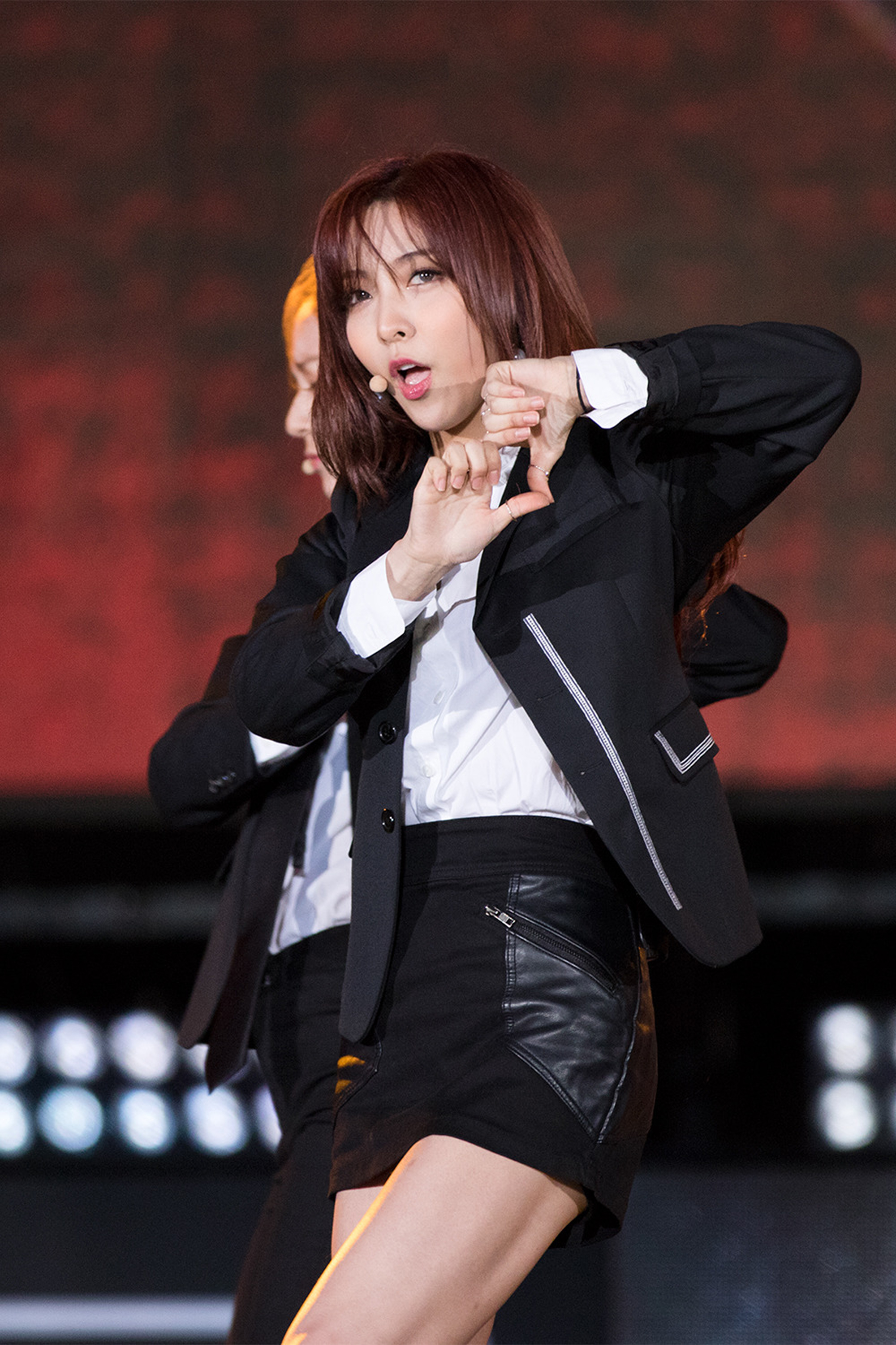 Luna at Jeju K-Pop Festival on October 25, 2015.